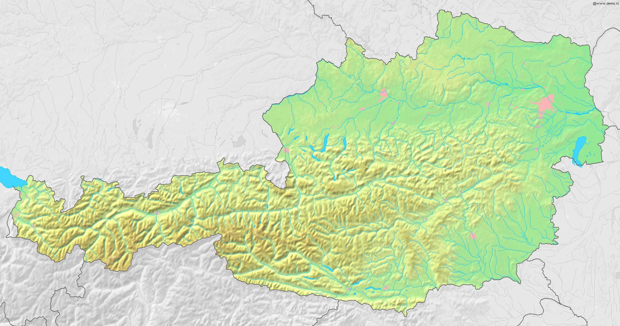 Topographic Map of Austria